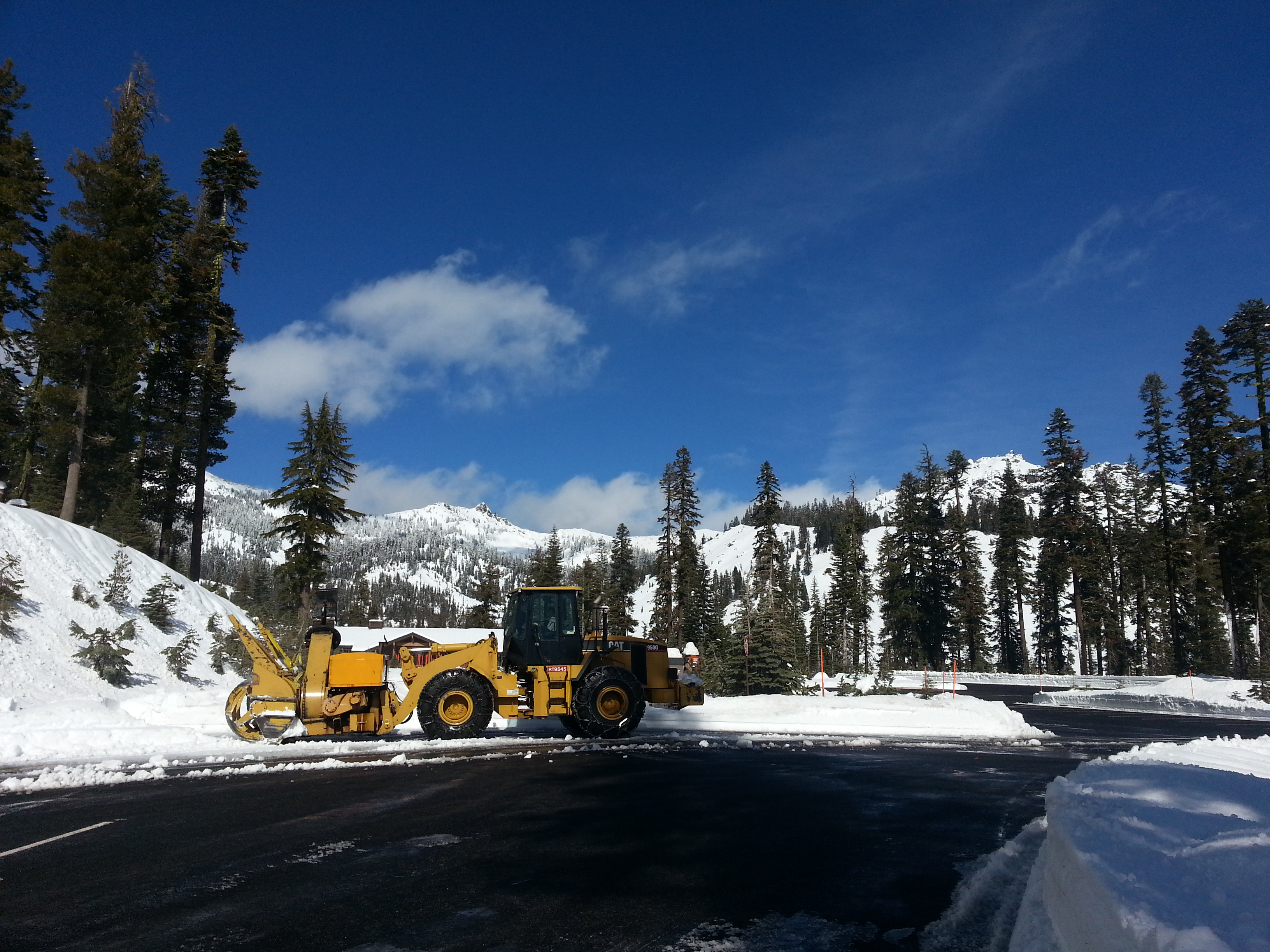 Rotary plow clears park entrance